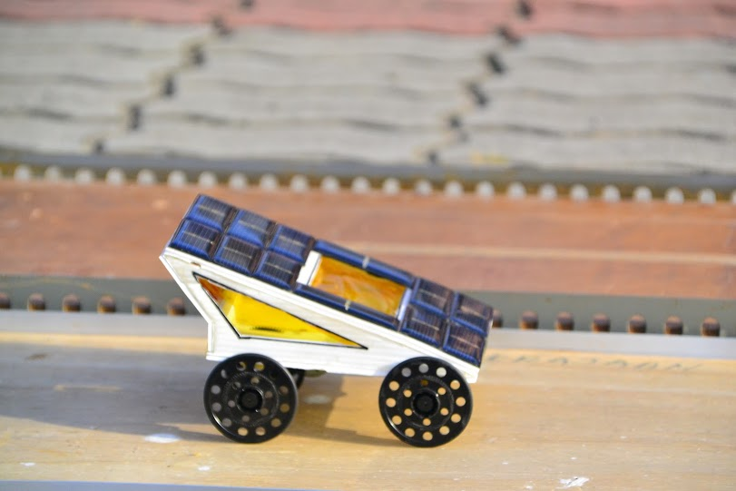 Cekap tenaga 10